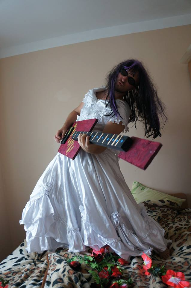 Фотосессія гурту "Рапани" на острові Бірючий